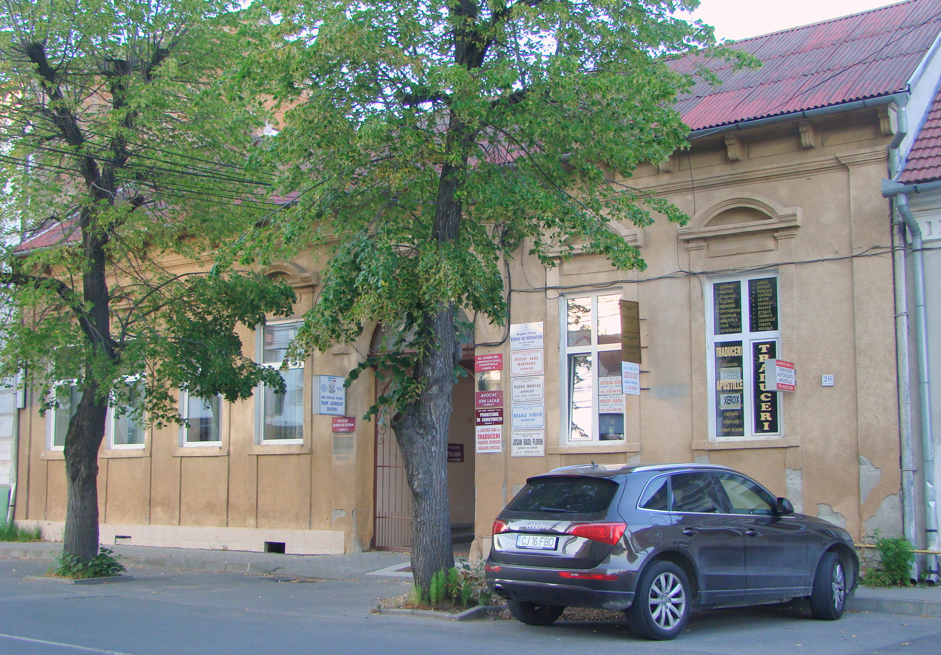 House, historic monument, Trandafirilor street, number 26, Alba Iulia, Alba county, Romania